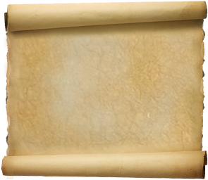 A piece of parchment.